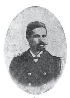 portrait of Todor Saev